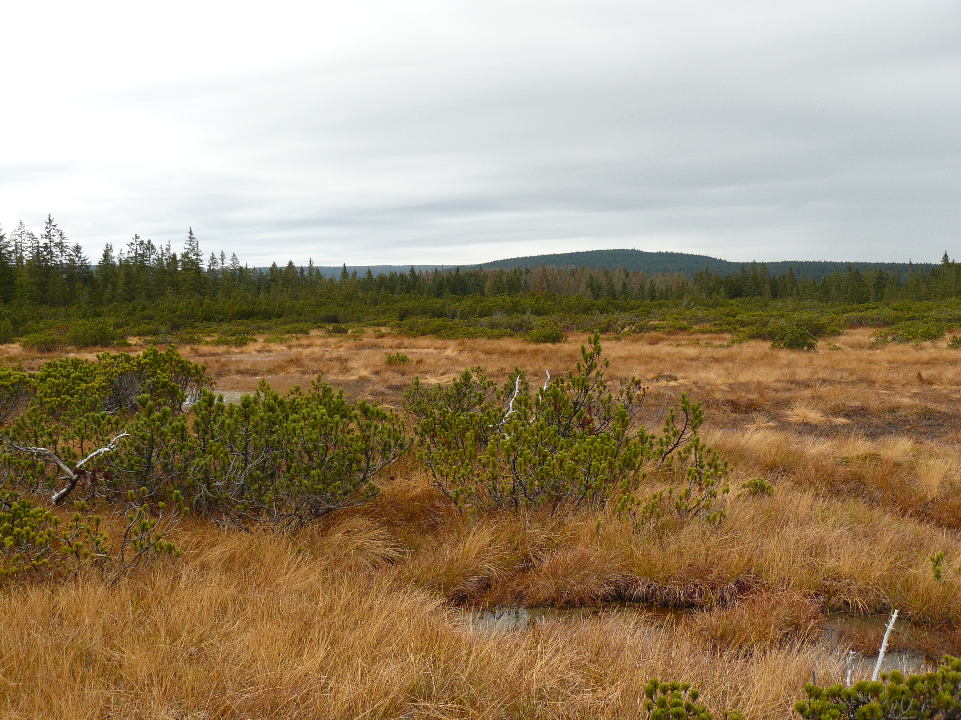 moor